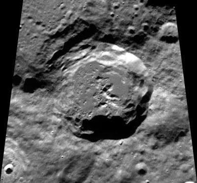 Ricco lunar crater - Clementine image